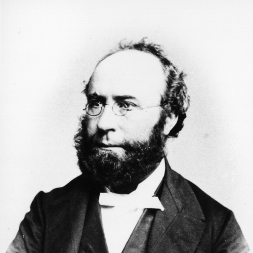 Upper body portrait of the Reverend J. Crawford Woods, Unitarian minister.